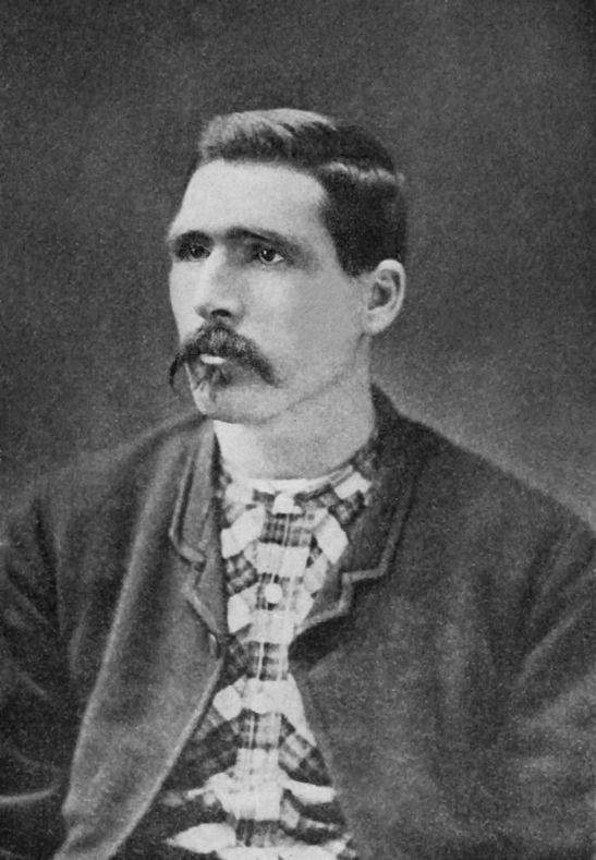 Halftone reproduction of a portrait photograph of Medal of Honor recipient Coxwain William Halford, USN (1841-1919), taken circa 1870, at about the time he became the sole survivor of USS Saginaw's gig, which was trying to reach the Hawaiian islands to obtain rescue for the ship's crew. Copied from "The Last Cruise of the Saginaw", page 110.